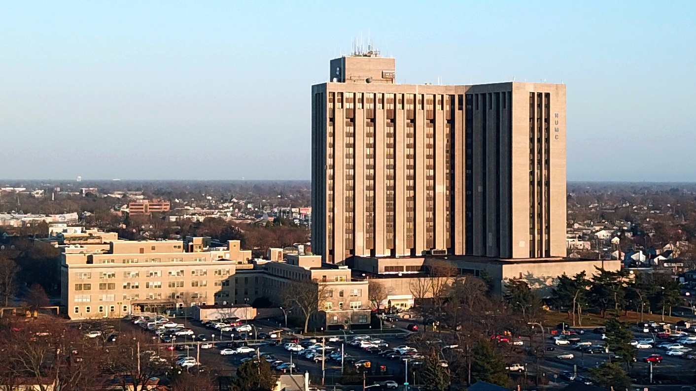 Nassau University Medical Center photographed from the northwest just before sunset